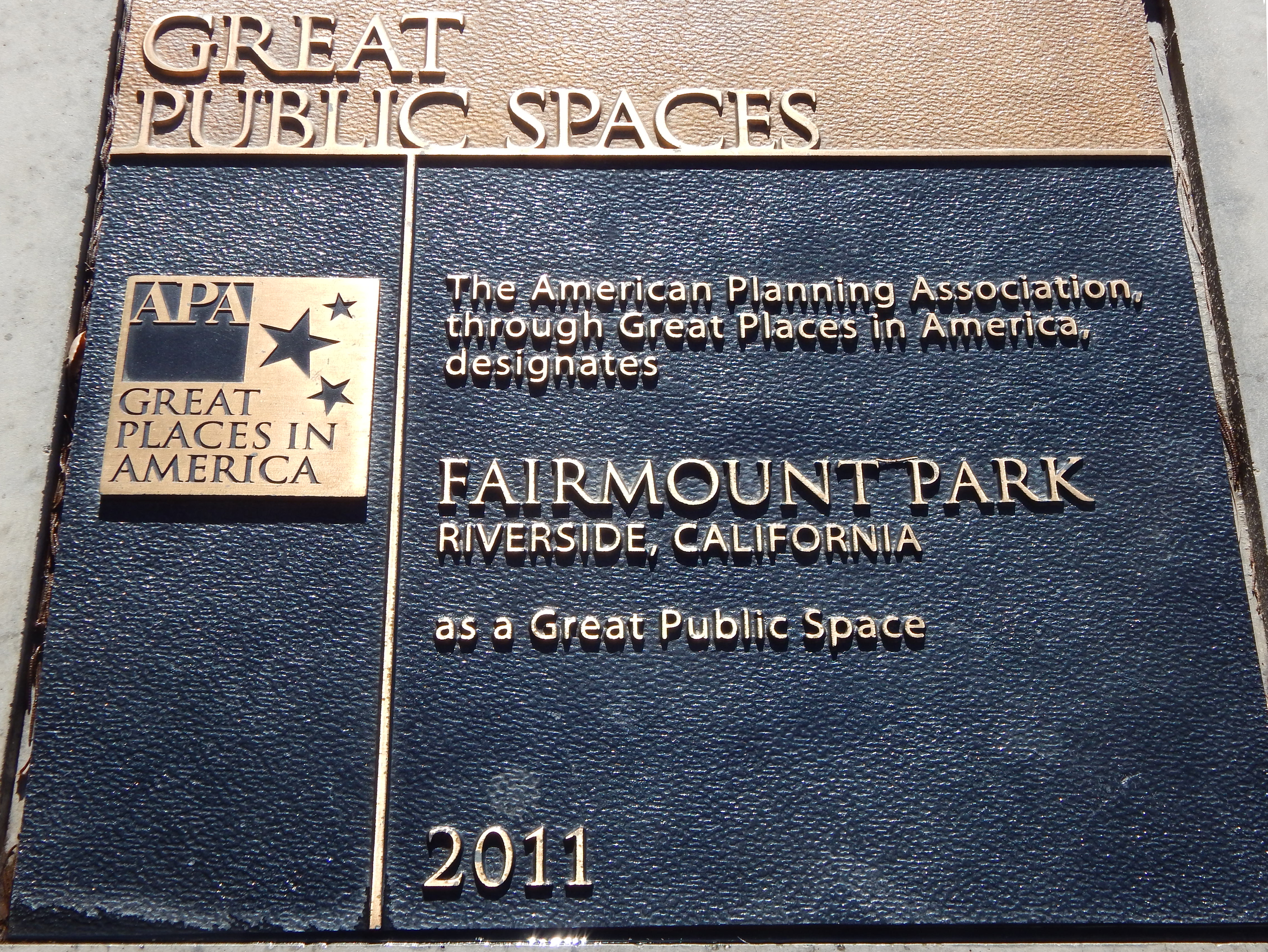 Fairmount Park, Riverside, California, USA - American Planning Association (APA) plaque designating the park as a Great Public Space, 2011